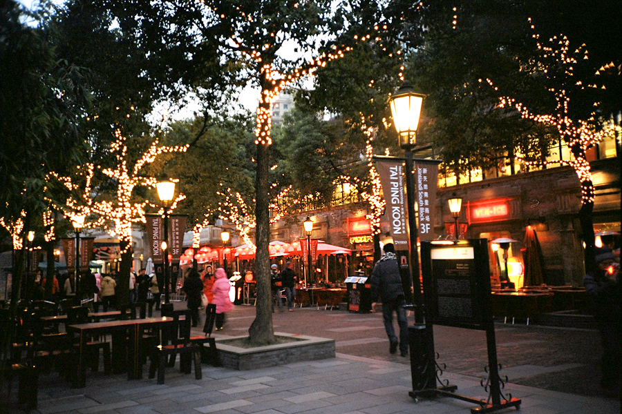 The Xintiandi area in Shanghai, China.